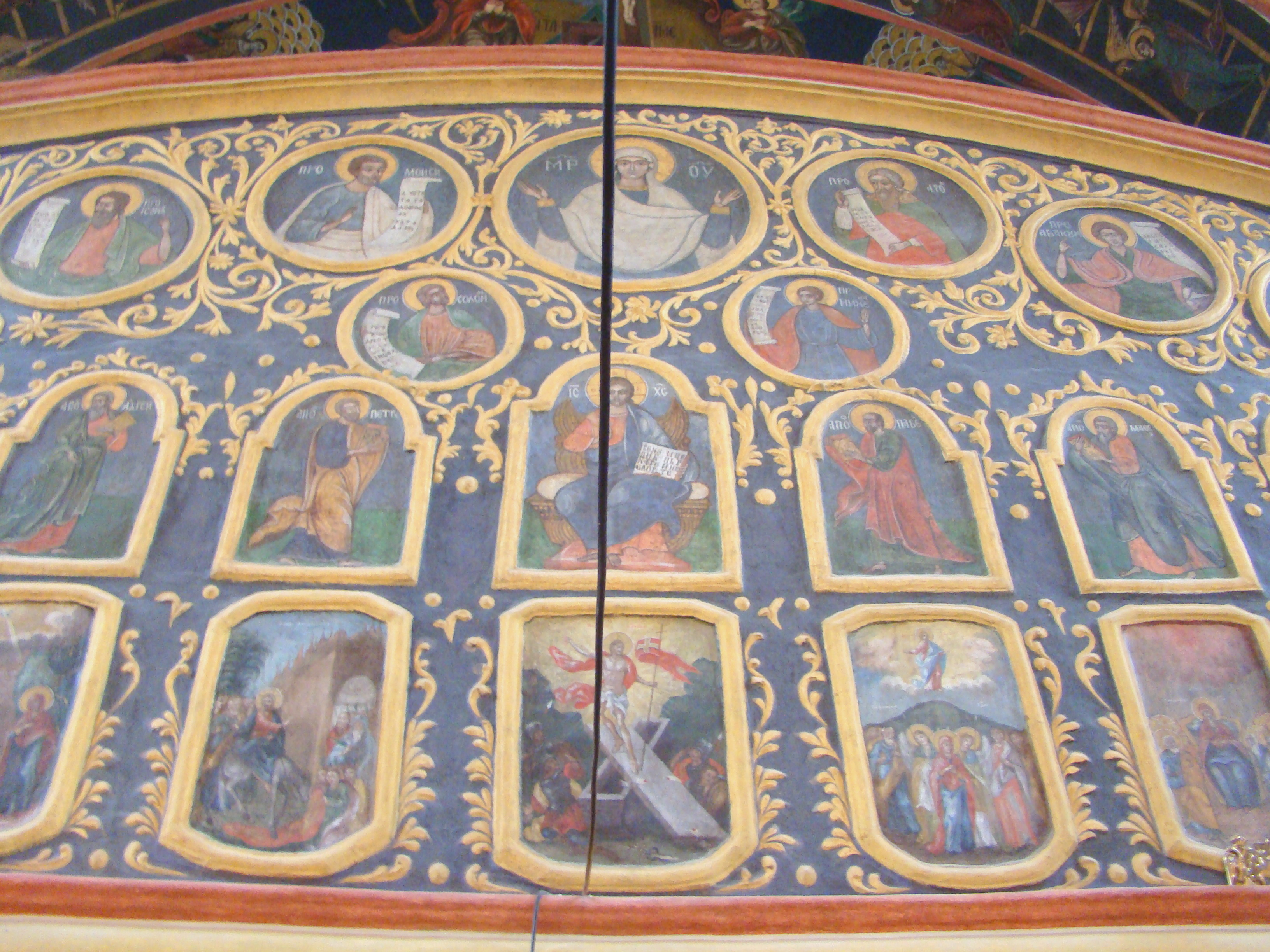 Saint John the Baptist's church in Caransebeș, Caraș-Severin county, Romania